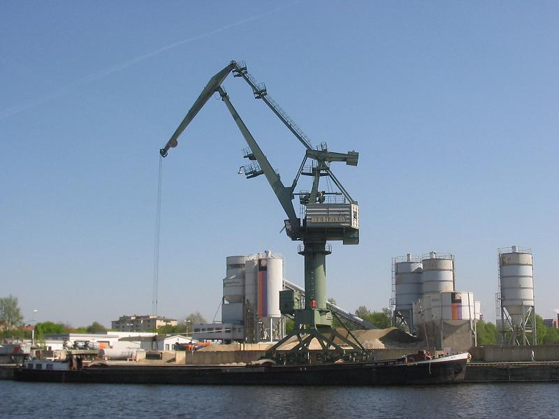 The Südhafen Spandau (south harbour Spandau) is an inland harbour at the river Havel in Tiefwerder in Spandau (Borough Spandau), Germany.